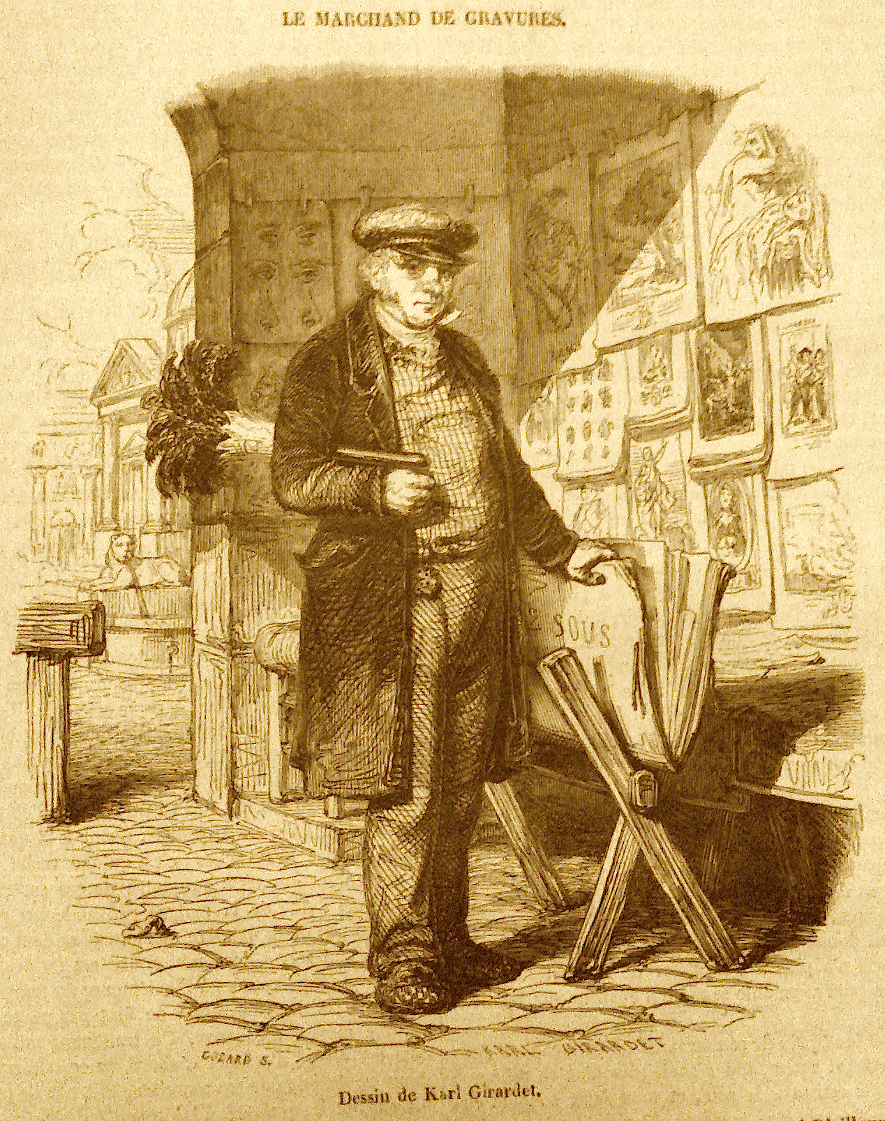 Le Marchand de gravures designed by Karl Girardet, sculp. by Godard, in Le Magasin pittoresque, issue 41, page 321.